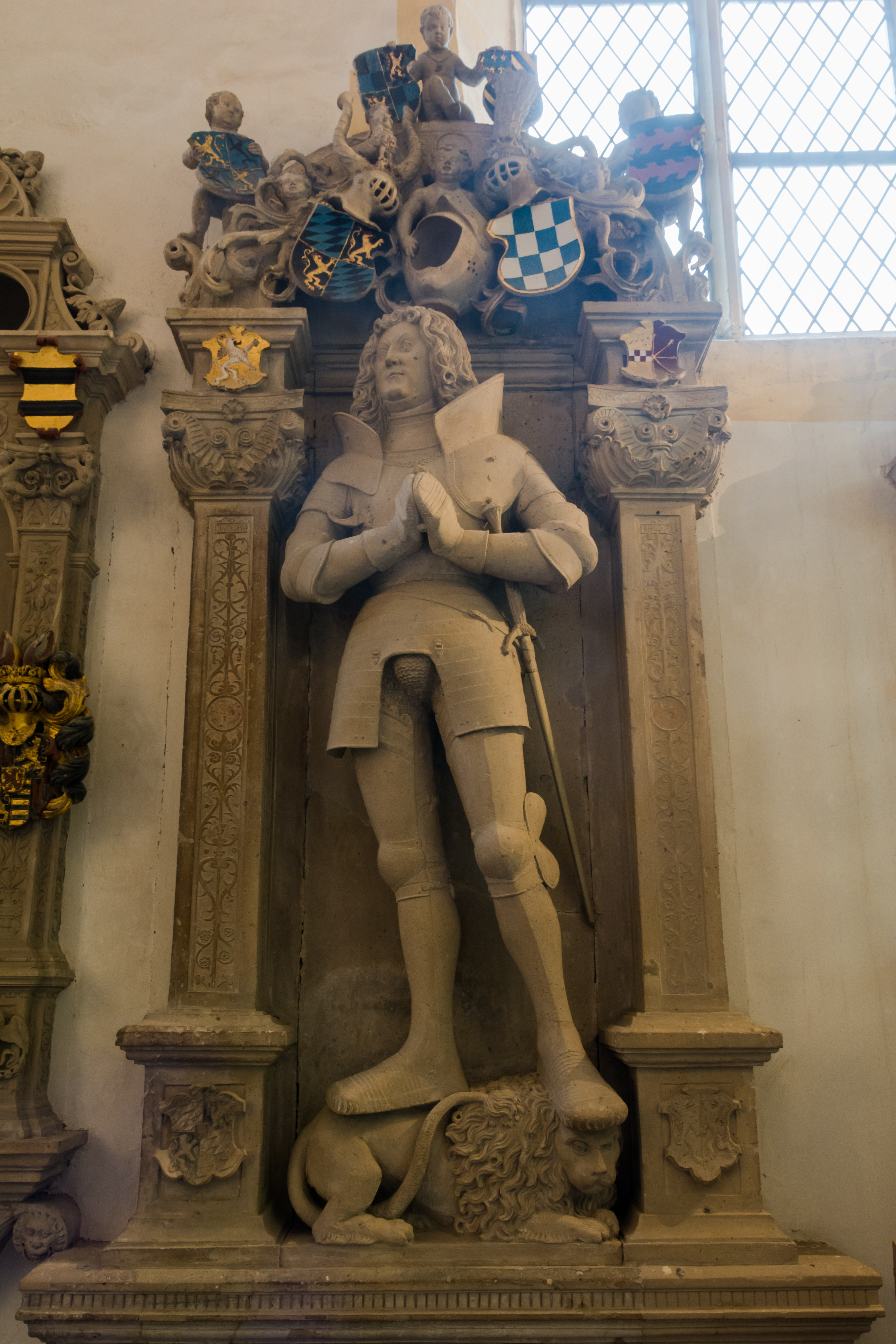 Effigy of Johan I of Pfalz-Simmern